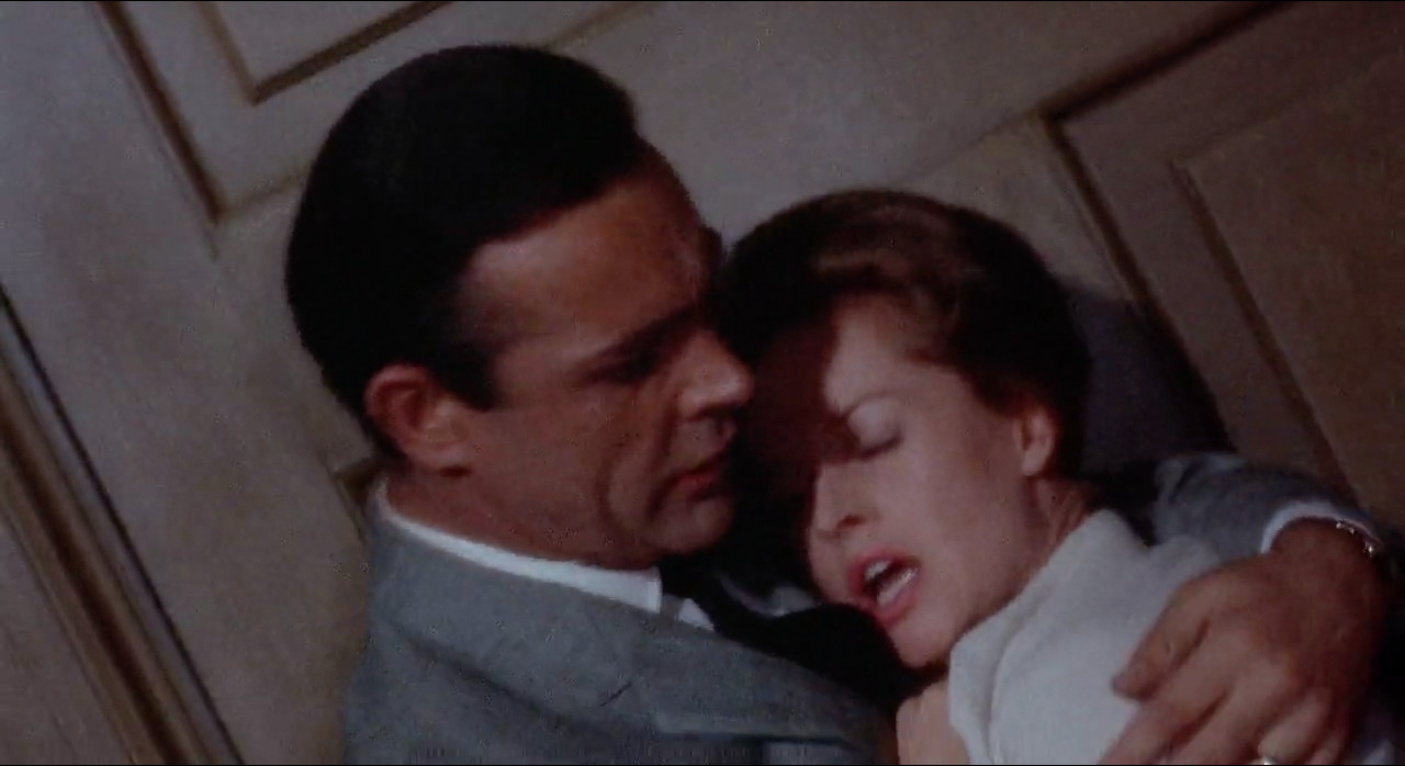 Tippi Hedren and Sean Connery in Hitchcock's "Marnie" trailer.